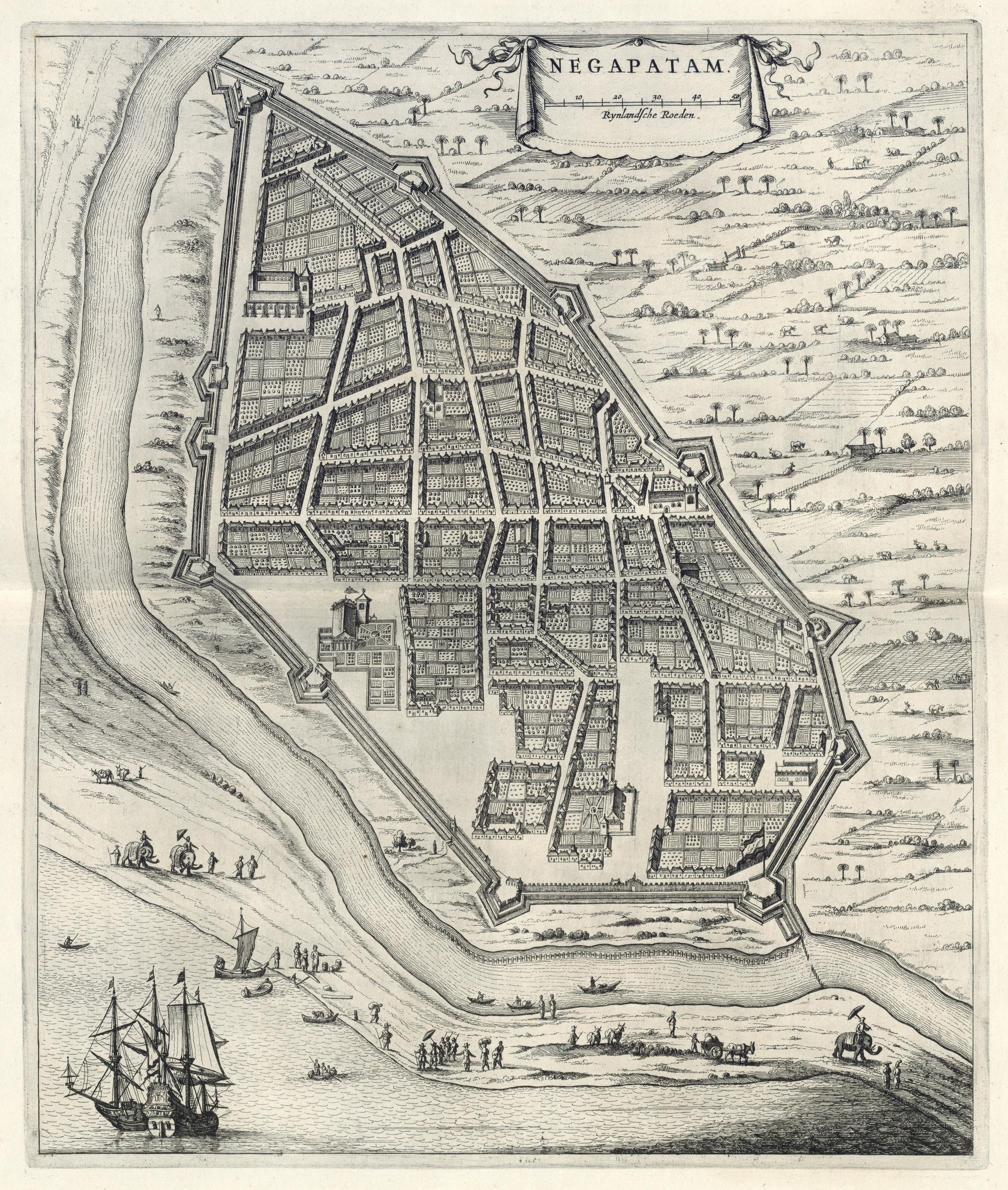 Bird's eye view of Negapatam. Negapatam. There is a lot of activity around the East Indiamen.